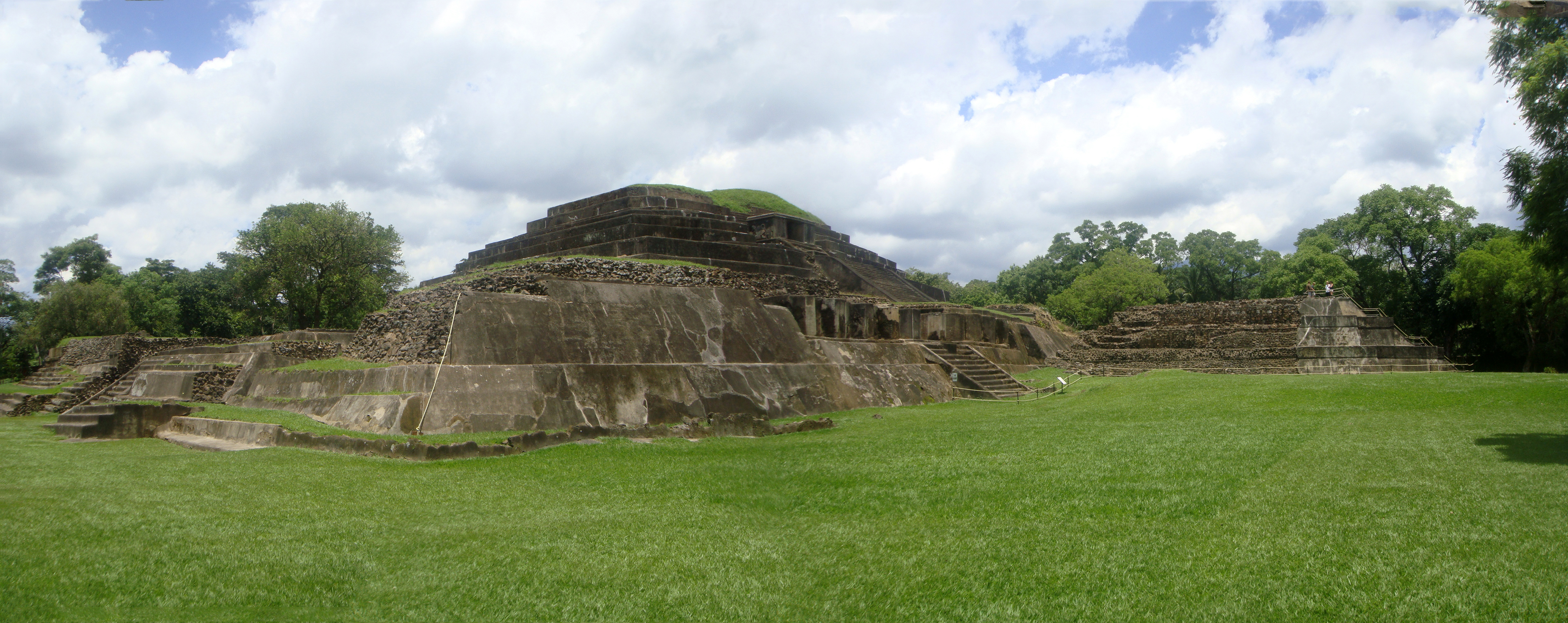 Panoramic view of the northern and western sides of the Tazumal main pyramid (structure B1-1) and structure B1-2 (right side). Chalchuapa, El Salvador.